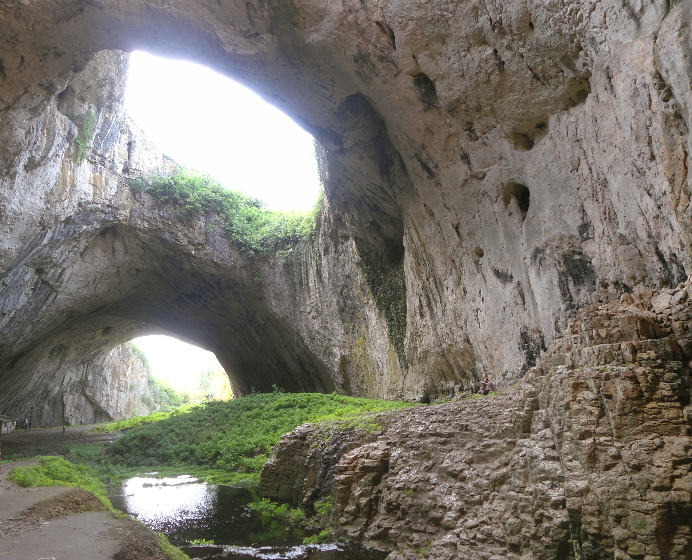 Devetàshka peshterà - vast, well known Bulgarian cave near the village Devetaki.